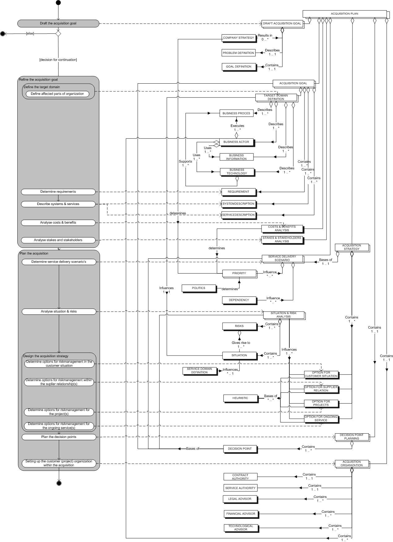 Full process-data diagram for the Acquisition Initiation, created by M.C.A. Luking, April 12th 2006